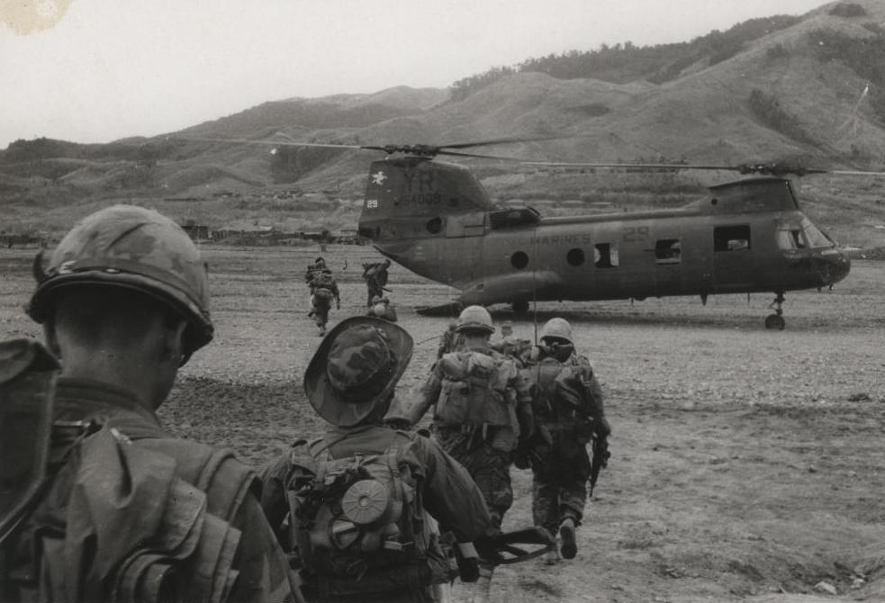 1/4 Marines move to board a CH-46 at Vandegrift Combat Base during Operation Scotland II